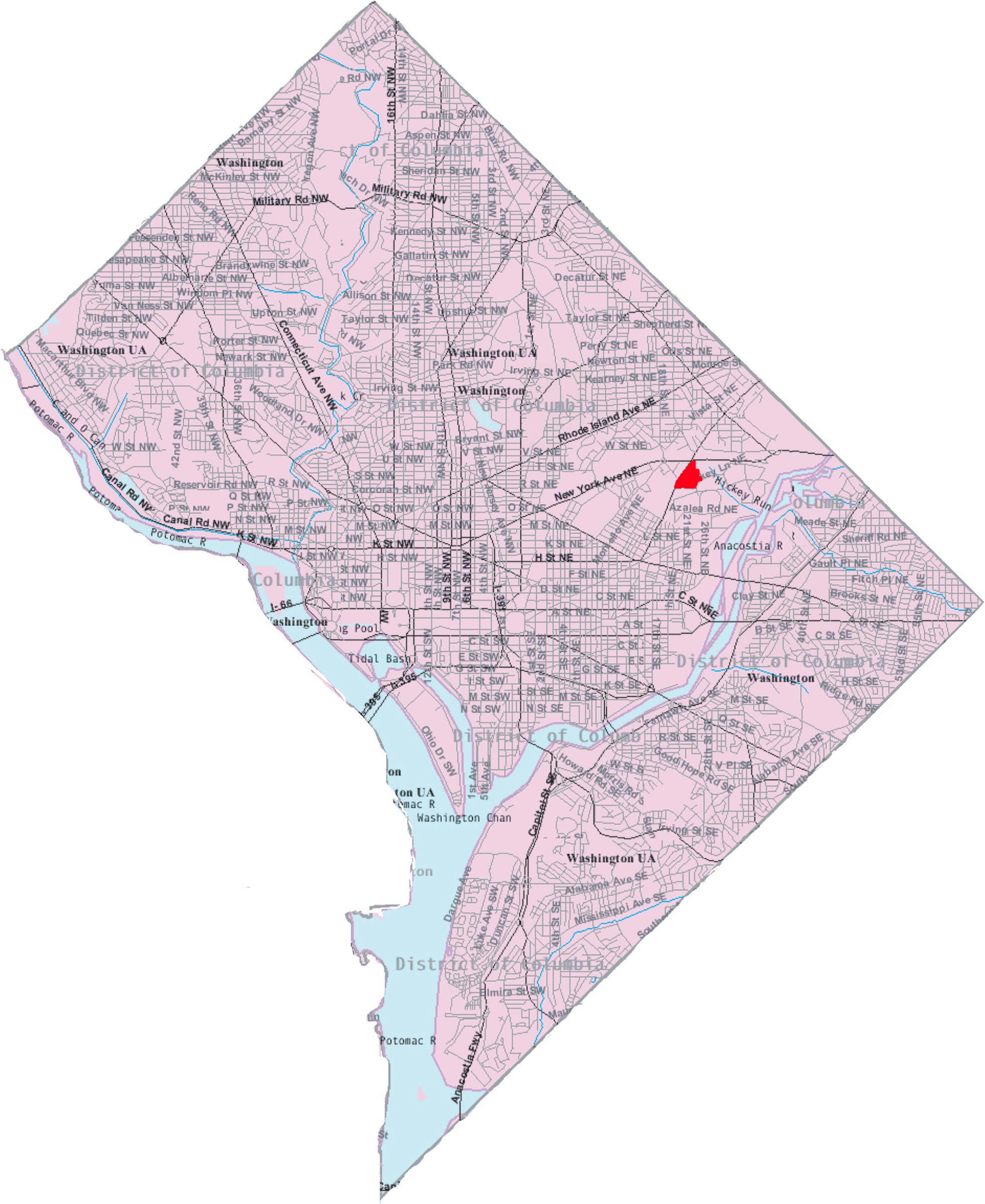 This image is a modified version of a self-generated reference map from the U.S. Census Bureau's American Factfinder at by Wikipedia user Msclguru.